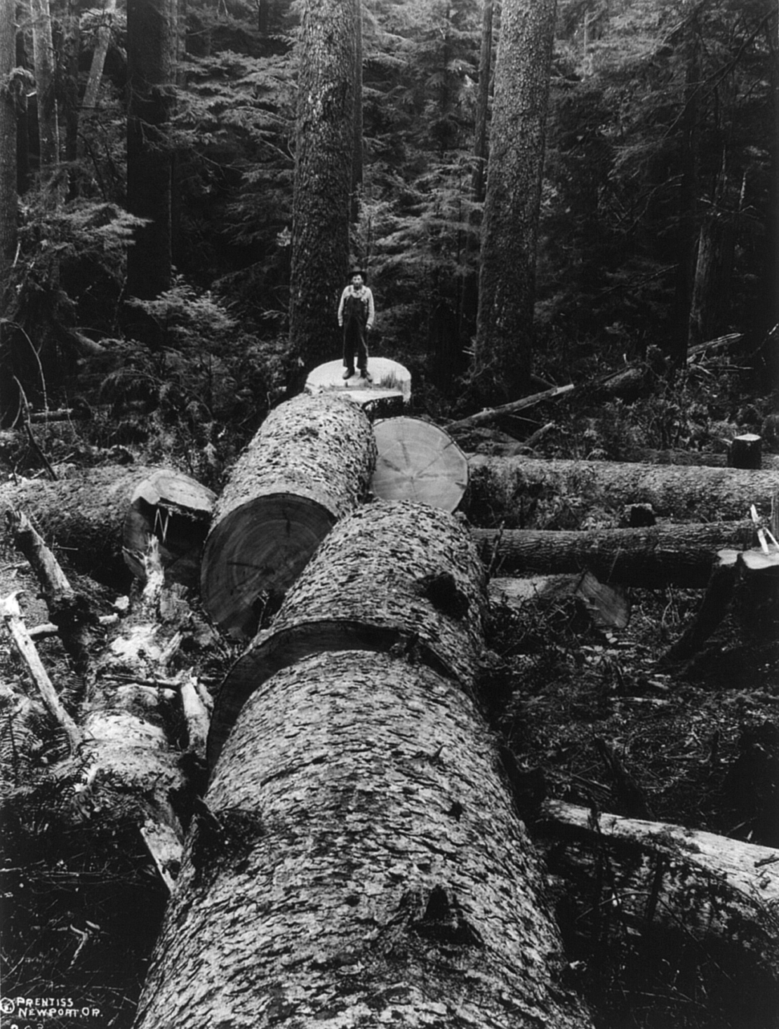 A bucked spruce